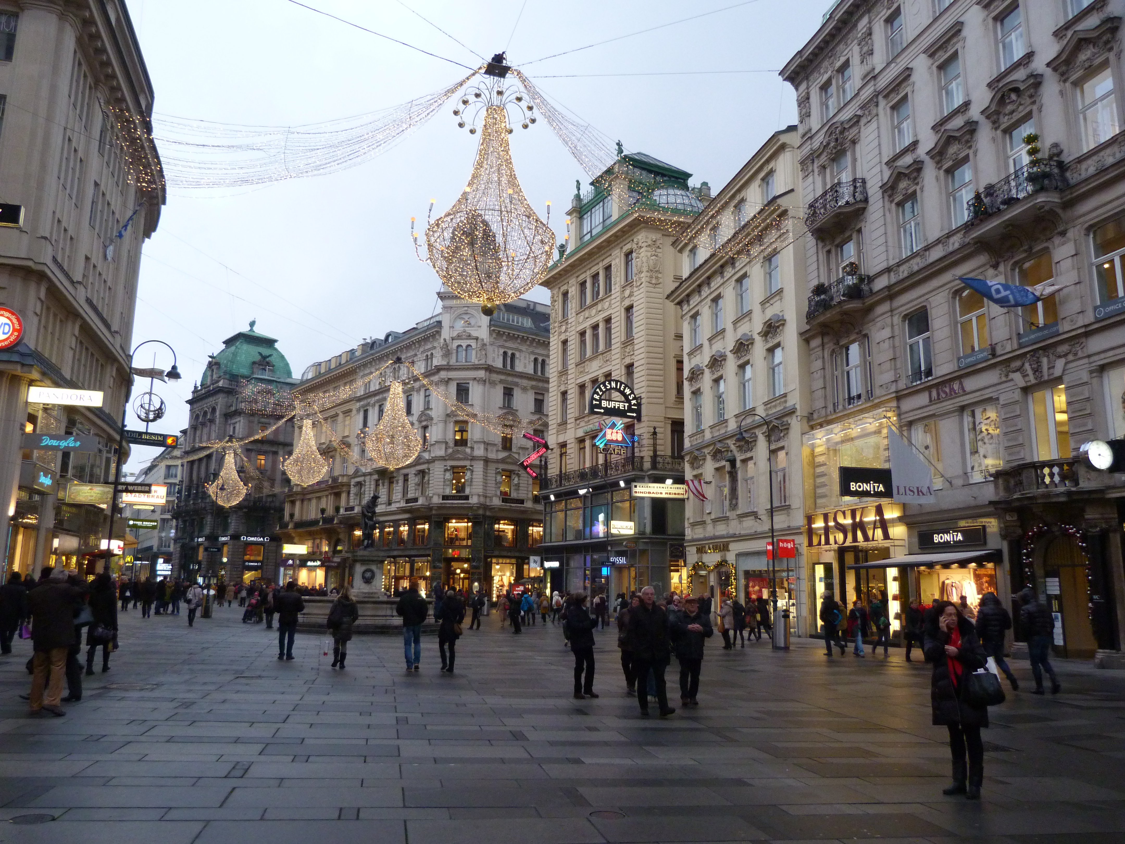 Live on the 3rd of December, 2014. Advent in Wien. ©© Derzsi Elekes Andor, Budapest, 2014, Published in the Metapolisz DVD line. You are authorised to use this photo under Creative Commons – even for commercial, for profit purposes. The photo must be attributed to Derzsi Elekes Andor. All of the photos and vids in the Metapolisz DVD line are under Creative Commons and can be used even for commercial – for profit – purposes. Recommended Citation Derzsi Elekes Andor: Metapolisz DVD line